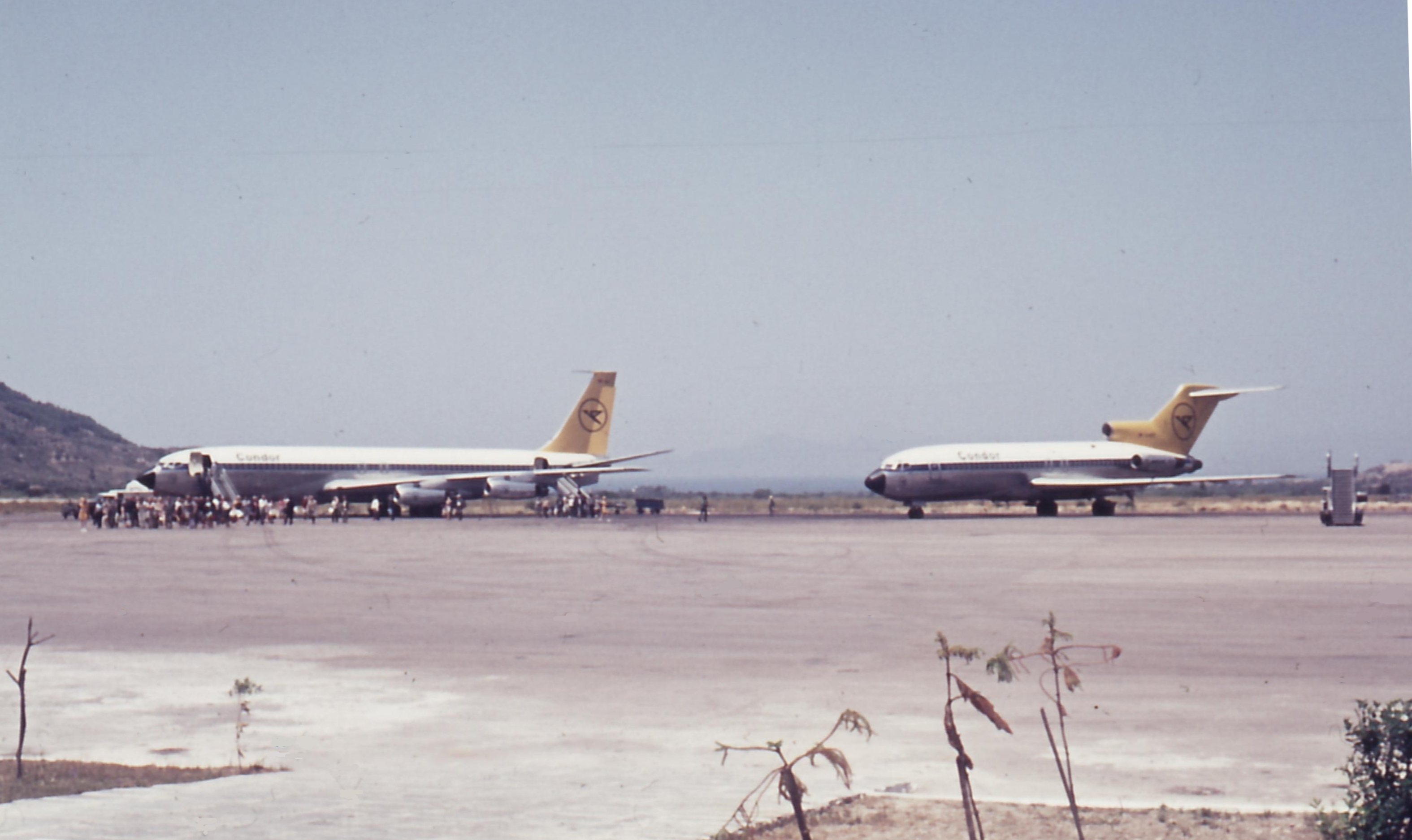 Boeing 707 and 727 of the Condor airline 1972 at the Rhodes-Maritsaairport. The incoming tourists leave the Boeing 707 - The departing passengers are waiting at the airport to fly later on with the Boeing 727 back home.